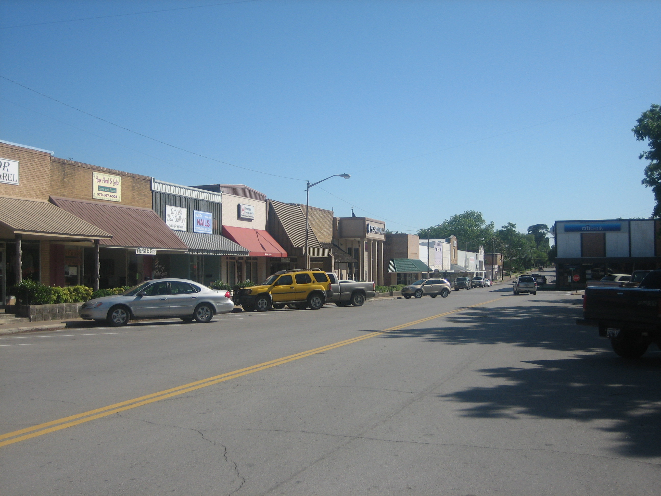 I took photo on May 19, 2009.Billy Hathorn (talk) 03:13, 31 May 2009 (UTC)